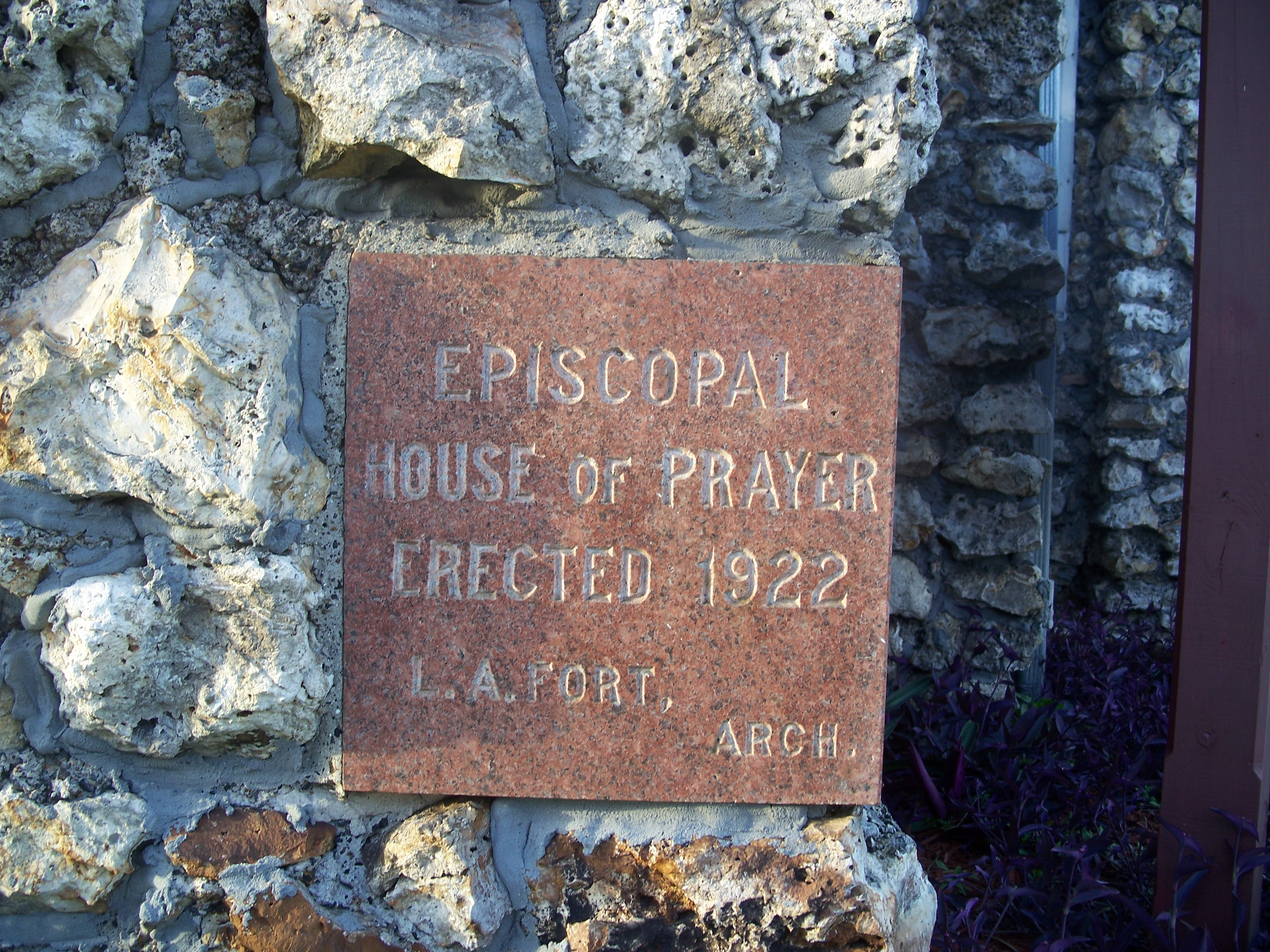 Corner stone in the Episcopal House of Prayer, in Tampa, Florida